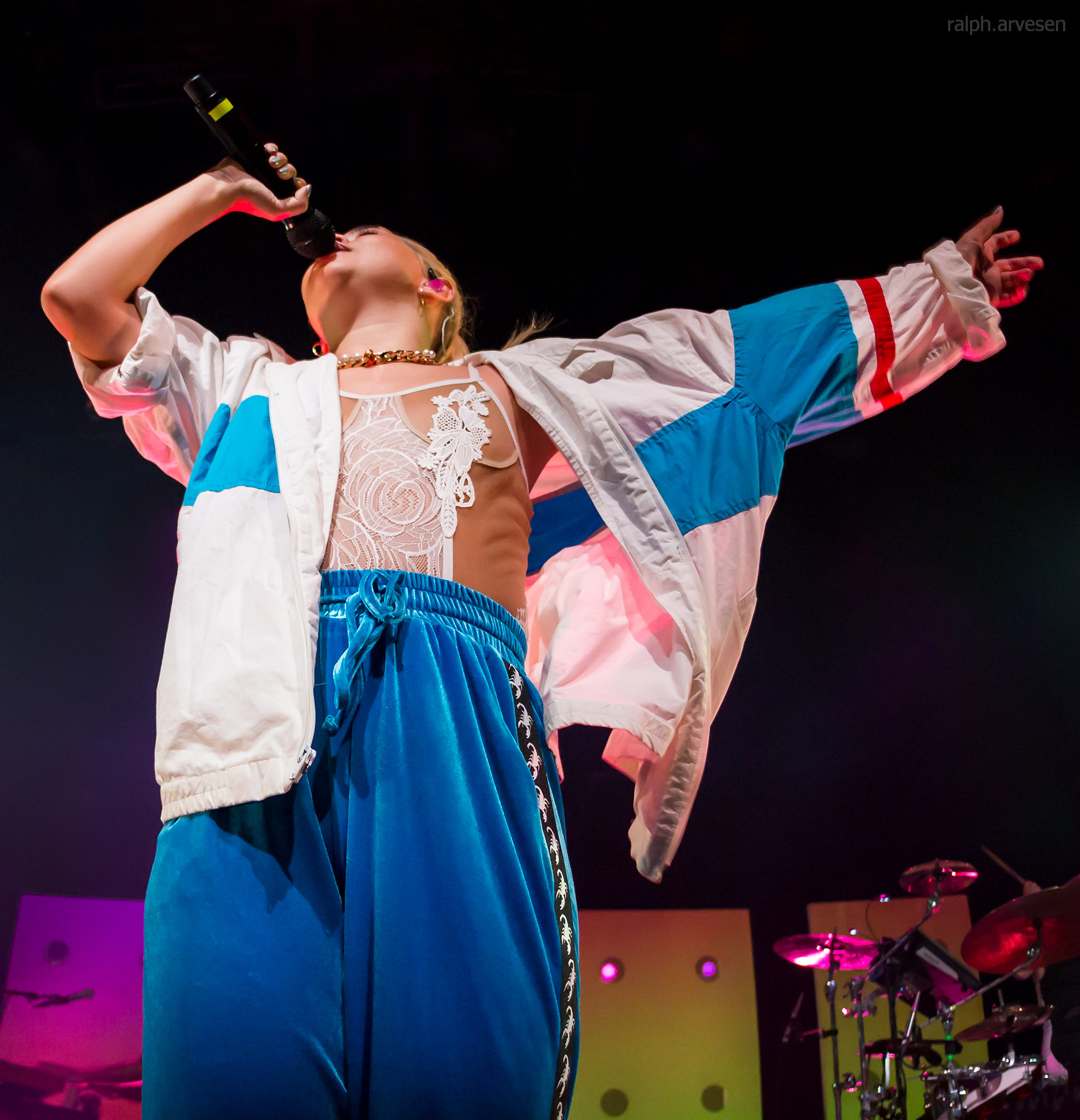 Hayley Kiyoko performing at Emo's in Austin, Texas on May 7, 2018.